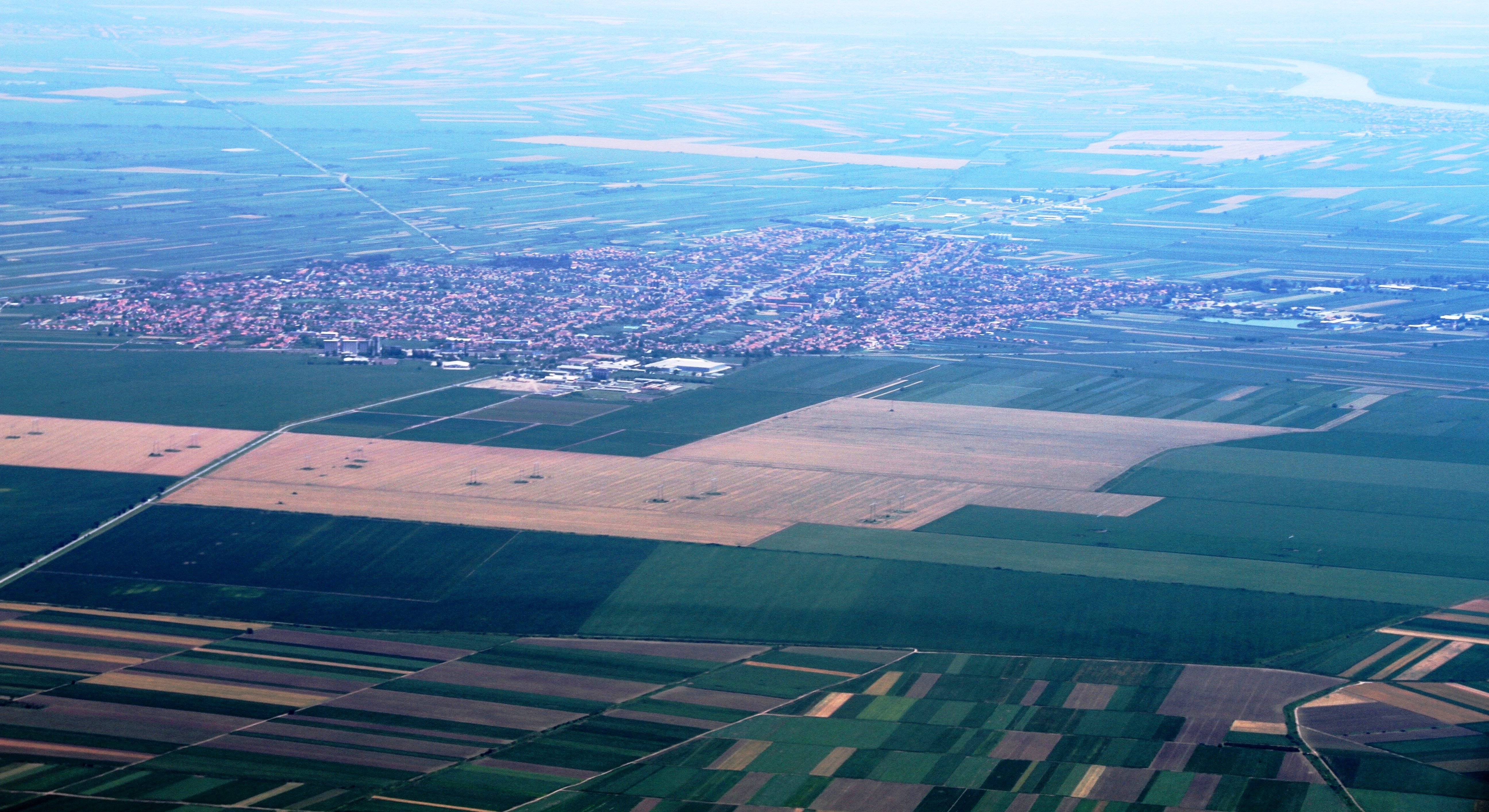 Aerial view from the west toward east, of Stara Pazova municipality, Vojvodina (northern Serbia)